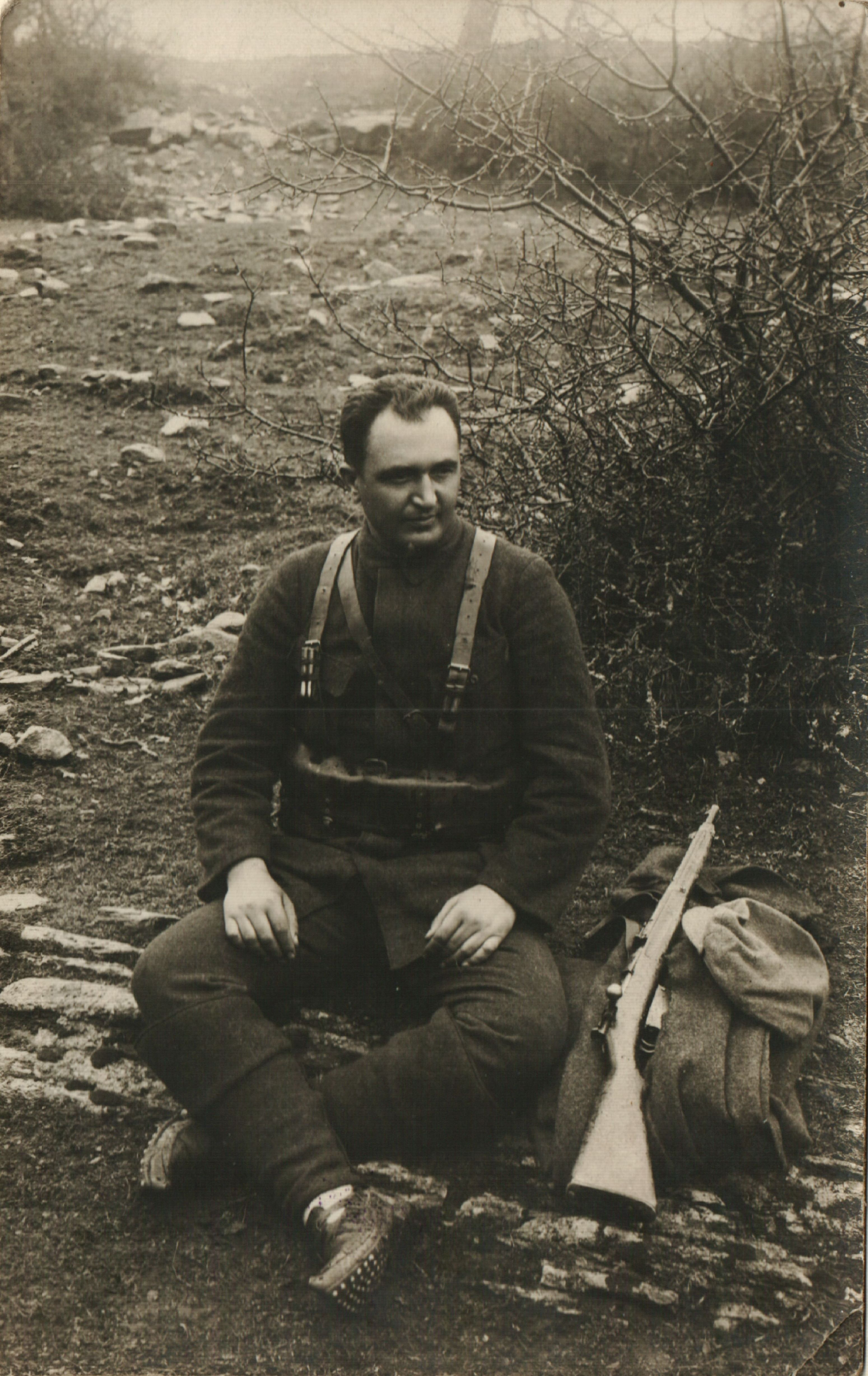 Yordan Gyurkov